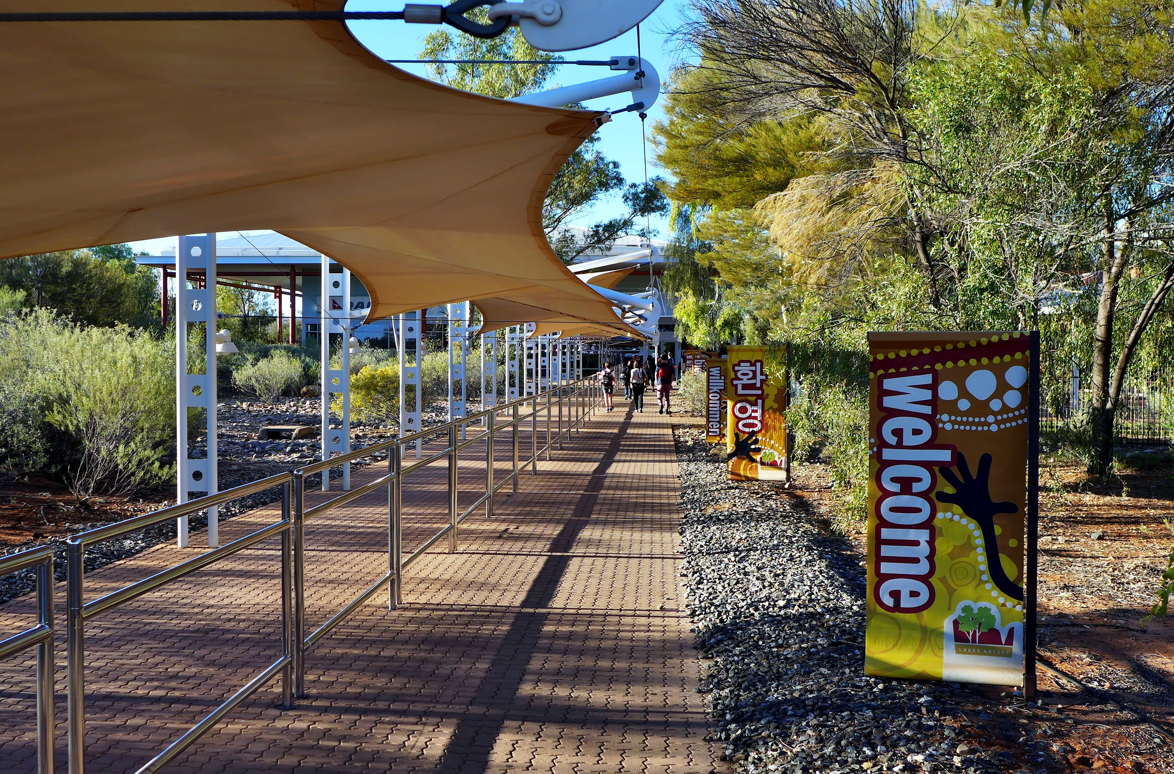 View of one of the walkways from the apron to the terminal at Alice Springs Airport.